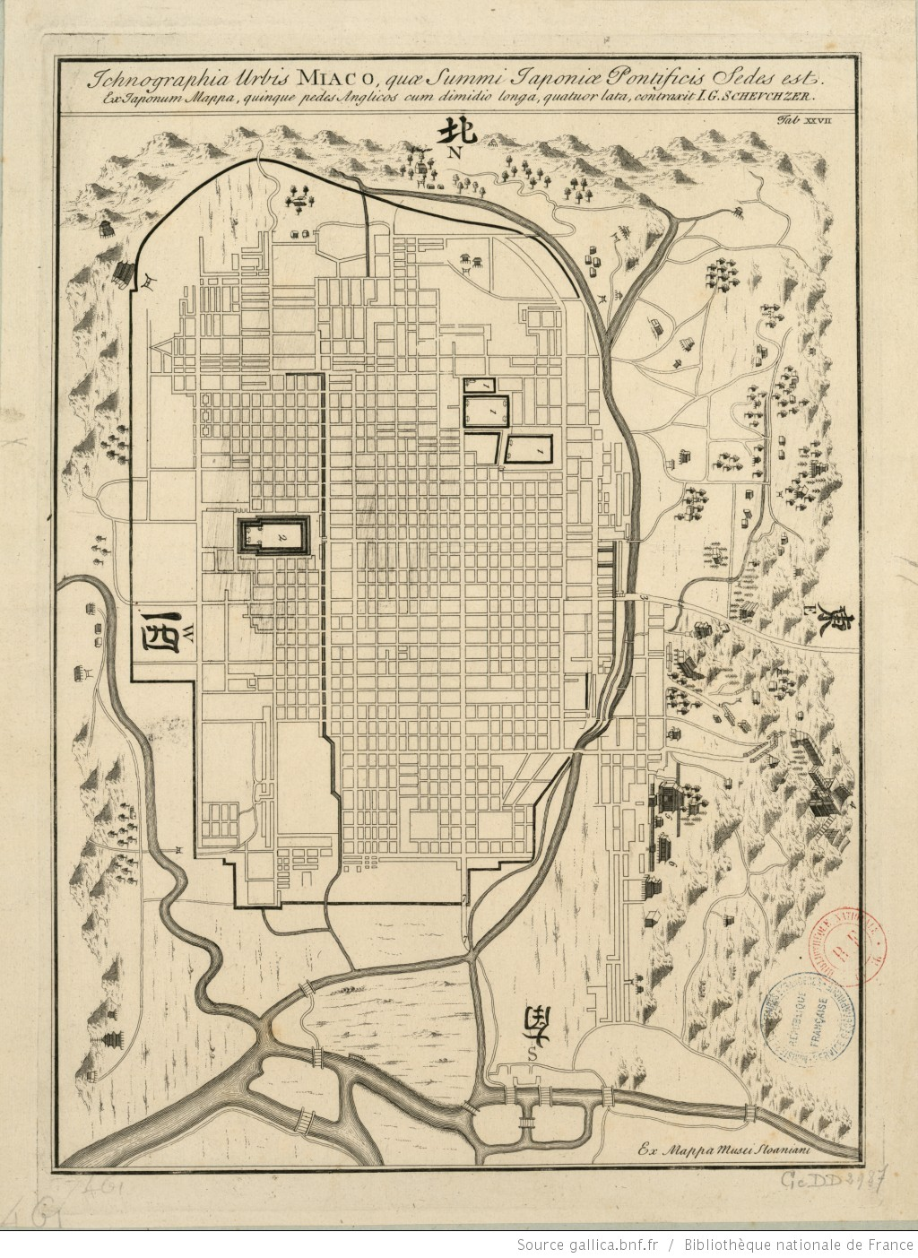 Historical map of Kyoto. 18th century. 46 x 34,5 cm.